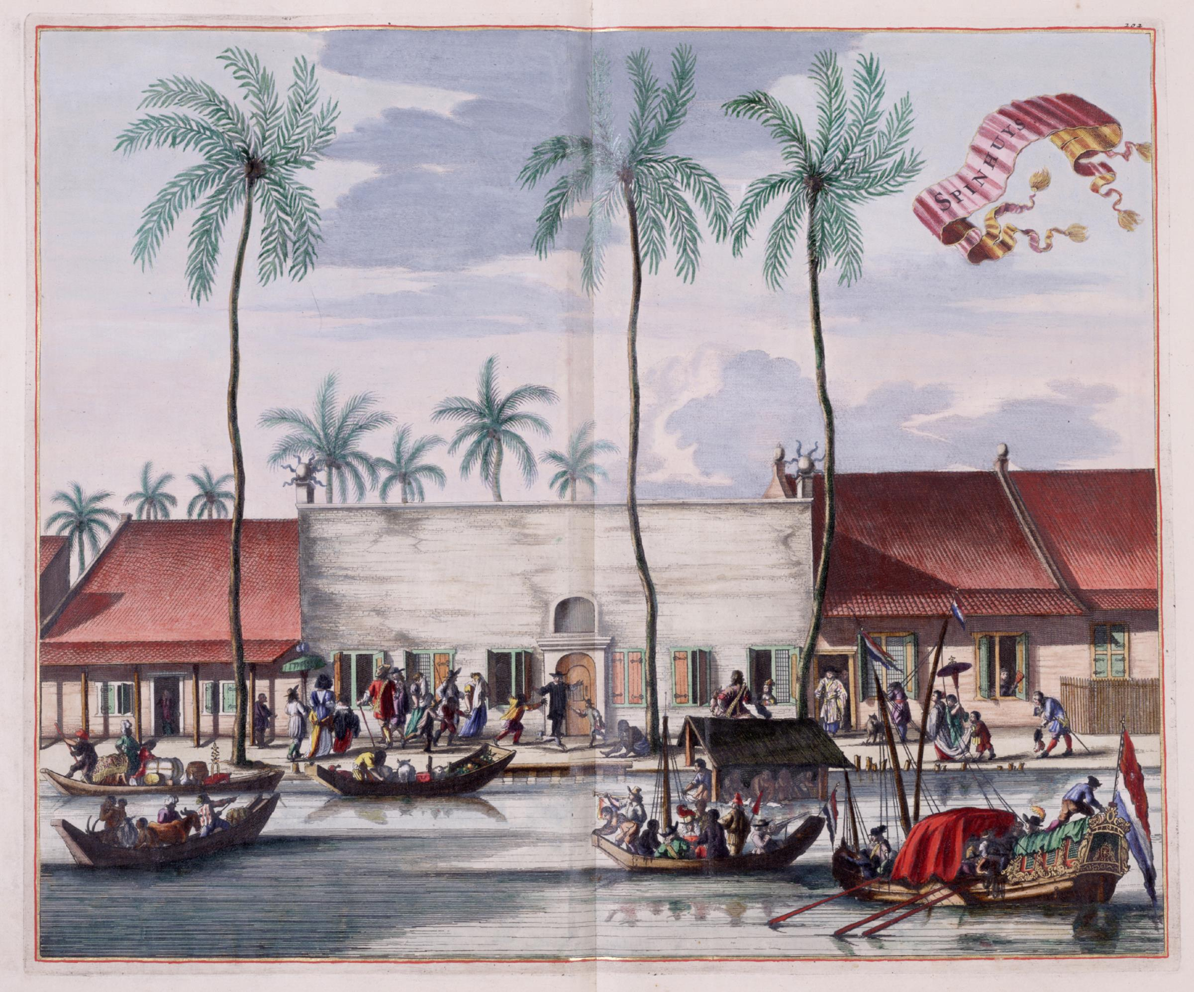 The spinning house; that is the house of correction or prison, at Batavia. Laundry is being washed on the quay. Top right: 202. The print in the Atlas Van Stolk, inv. nr. top 1035 and Koninklijke Bibliotheek 388 A 9 part II, after p. 202, 1 is in black and white, while the print from the Koninklijke Bibliotheek (Atlas van der Hagen, Koninklijke Bibliotheek, The Hague Part 4, inv. nr. 1049B13_025) has been coloured in.